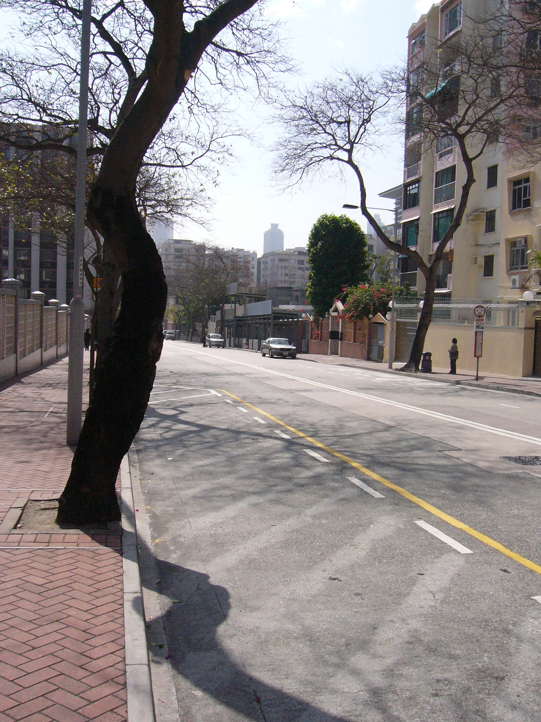 La Salle Road facing Boundary Street